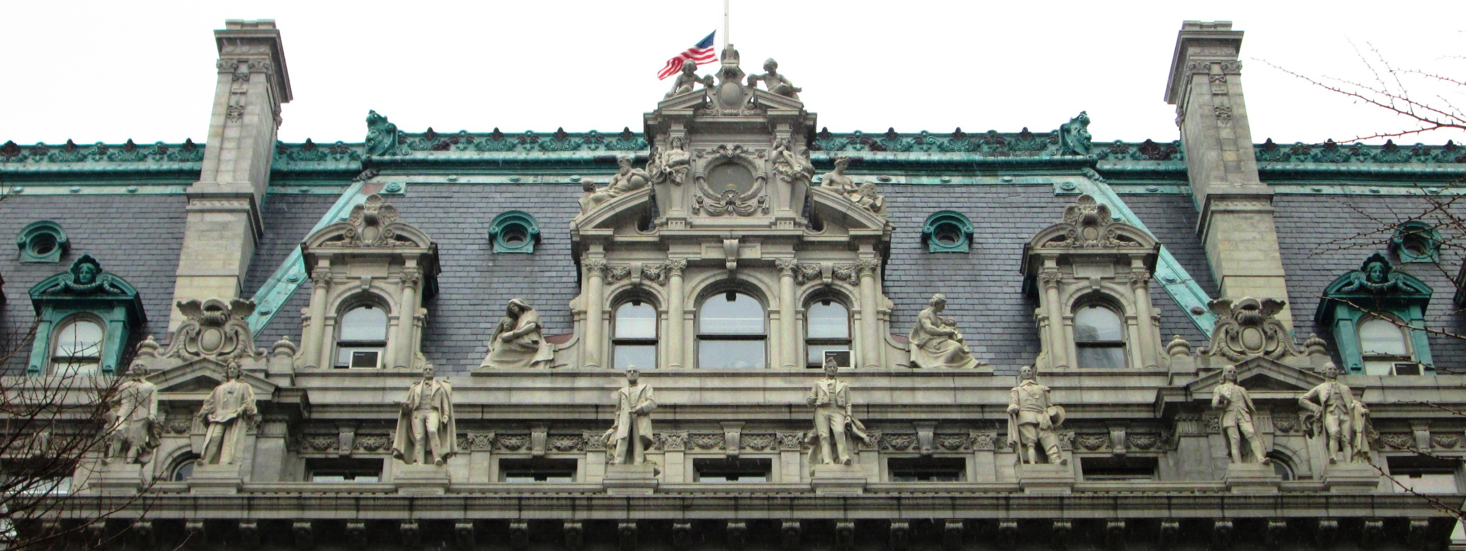 The Surrogate's Courthouse at 31 Chambers Street between Elk Street and Centre Street in the Civic Center district of Manhattan, New York City was built in 1899-1907 as the Hall of Records, and was designed by John R. Thomas in the Beaux-Arts style, and completed after his death by Horgan & Slattery. The exterior was designated a NYC landmark in 1966, and the interior in 1976. (Source: Guide to NYC Landmarks (4th ed.)) This image shows the top of the building.